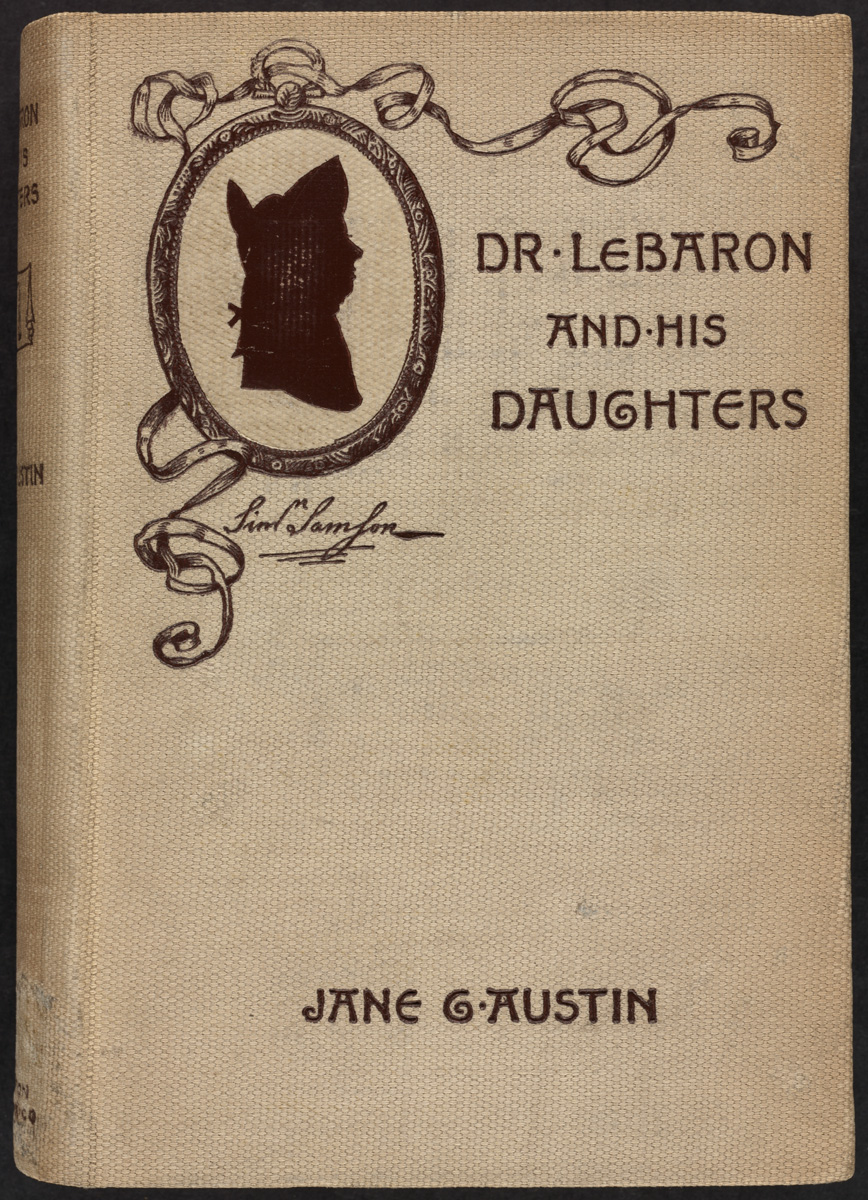 File name: 06_04_000245Title: AUSTIN(1890) Dr. Le Baron and his daughtersDate issued: 1890Genre: Book coversNotes: Austin, Jane G. (Jane Goodwin), 1831-1894 (Author)Collection: Sarah Wyman Whitman BindingsLocation: Boston Public Library, Special CollectionsRights: No known copyright restrictions.